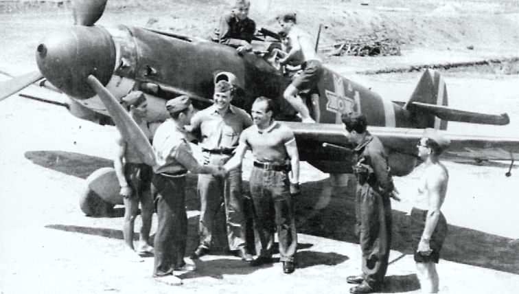 Messerschmitt Bf 109 at Stalingrad